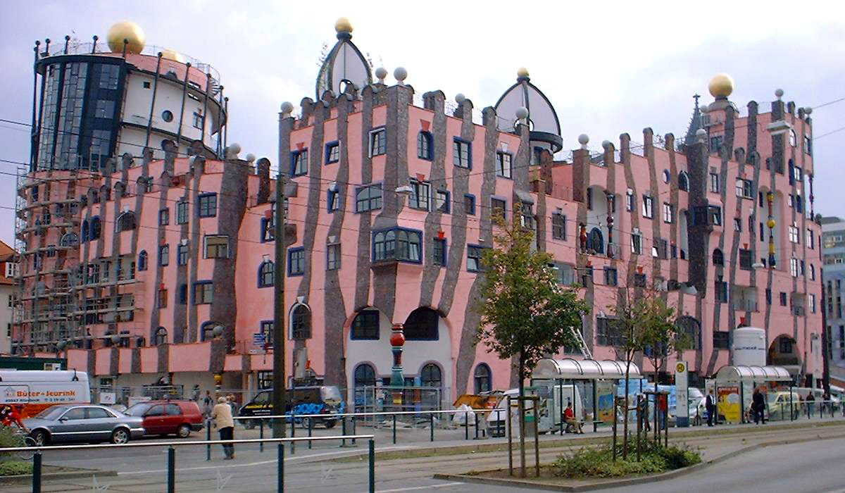 Hundertwasserhaus in Magdeburg in Saxony-Anhalt, Germany